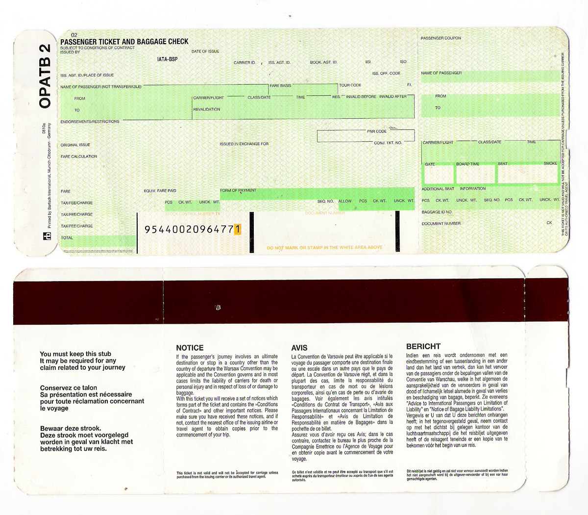 OPATB2 ticket blank